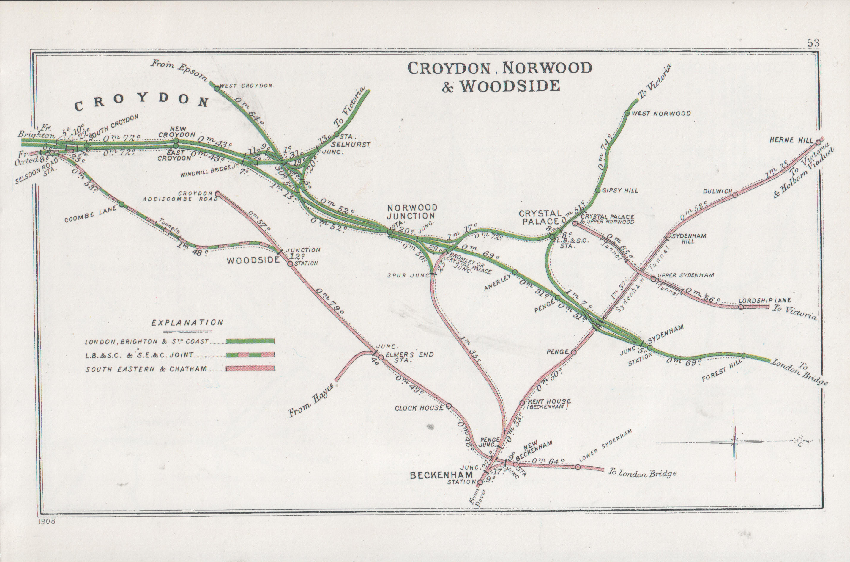 Pre Grouping railway junction around Croydon, Norwood & Woodside